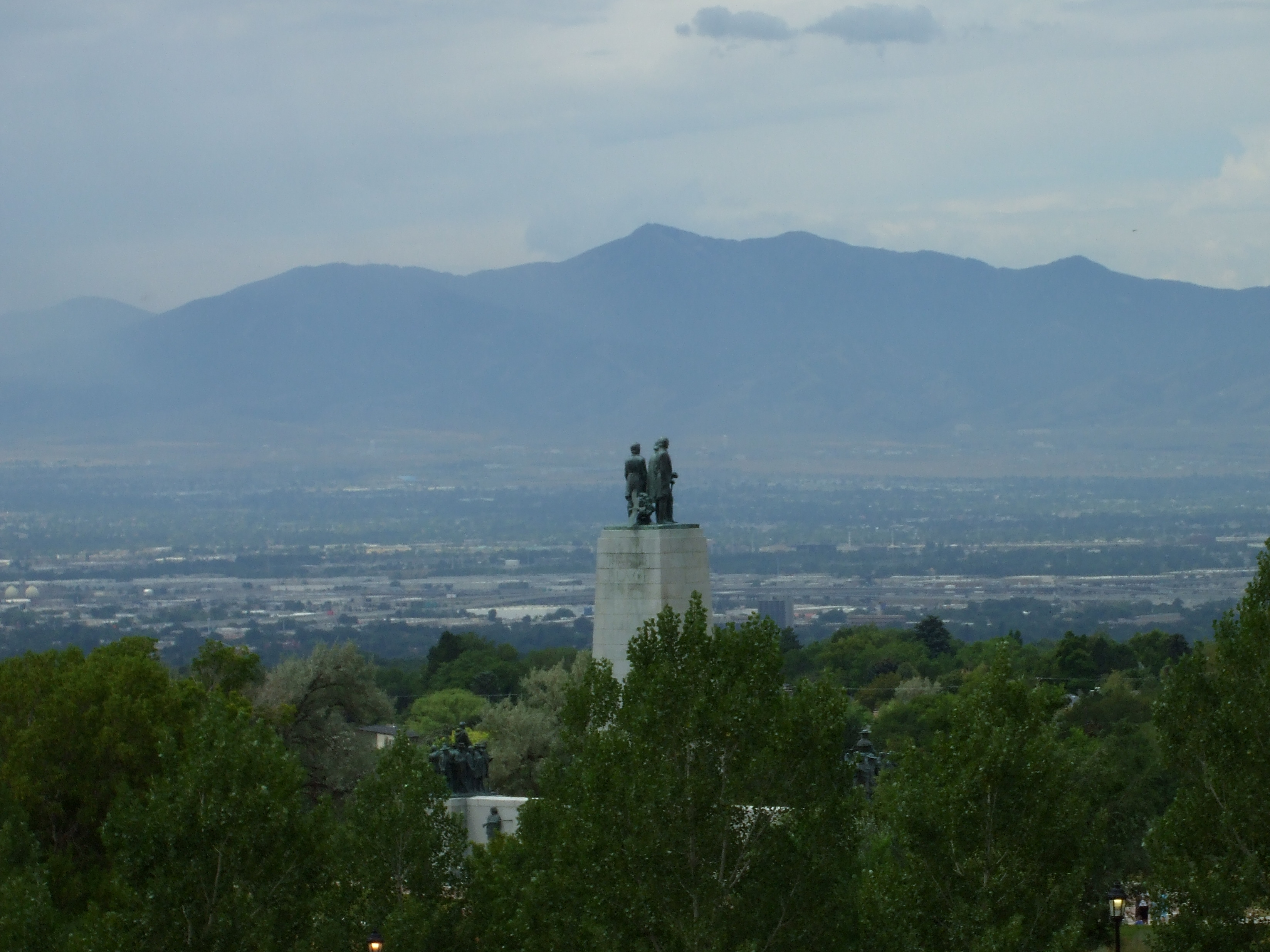 View of the Salt Lake Valley as seen from the original 1921 monument at This Is The Place Heritage Park in Salt Lake City, Utah, United States.